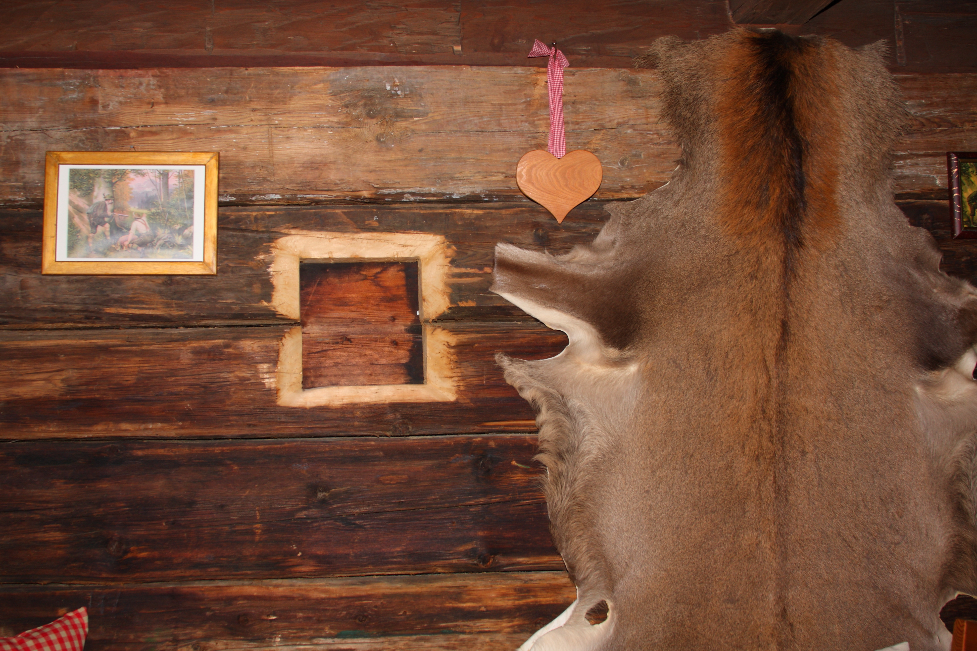 Moarhofalm, Preuneggtal, Styria, Austria